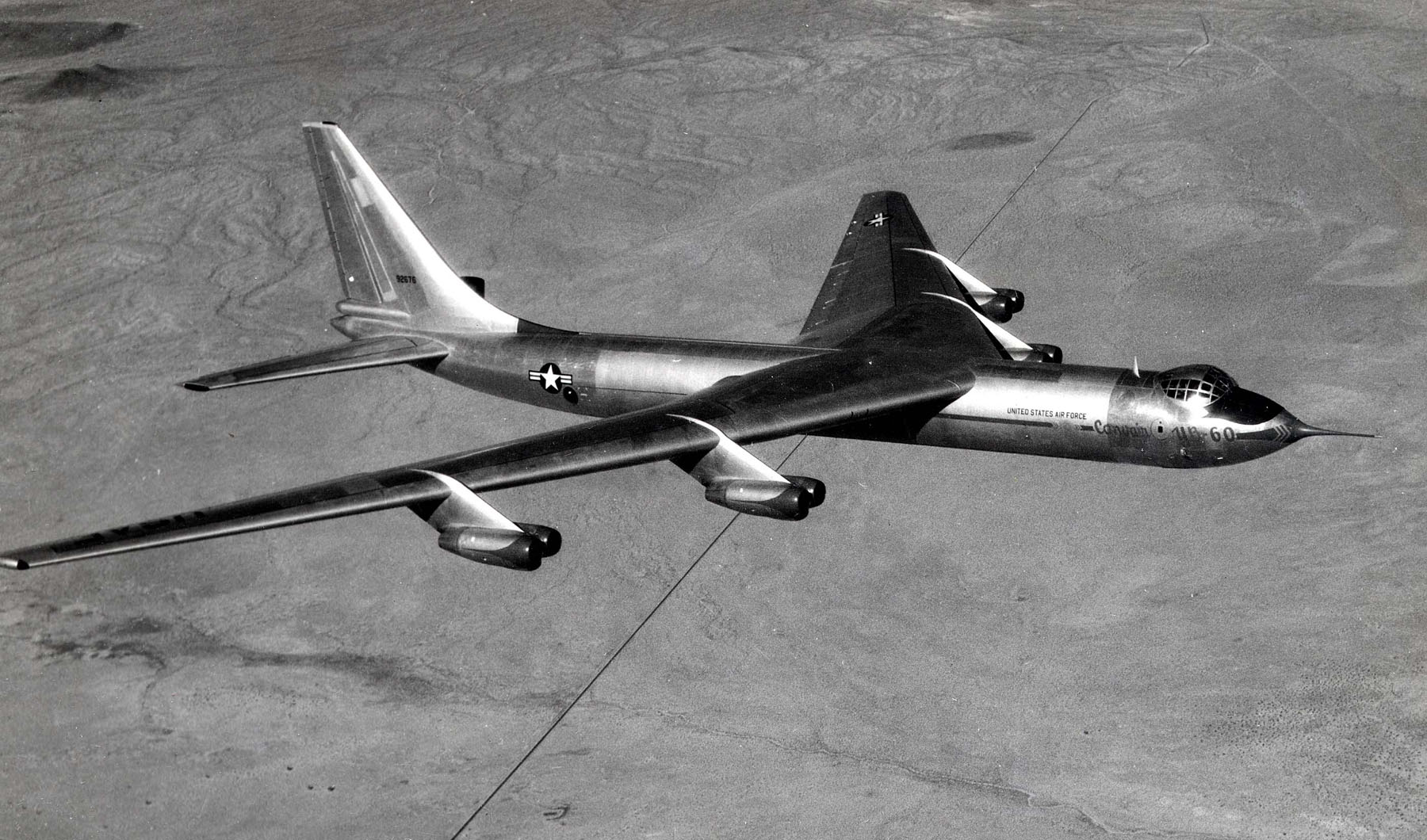 Convair YB-60 in flight (SN 49-2676)